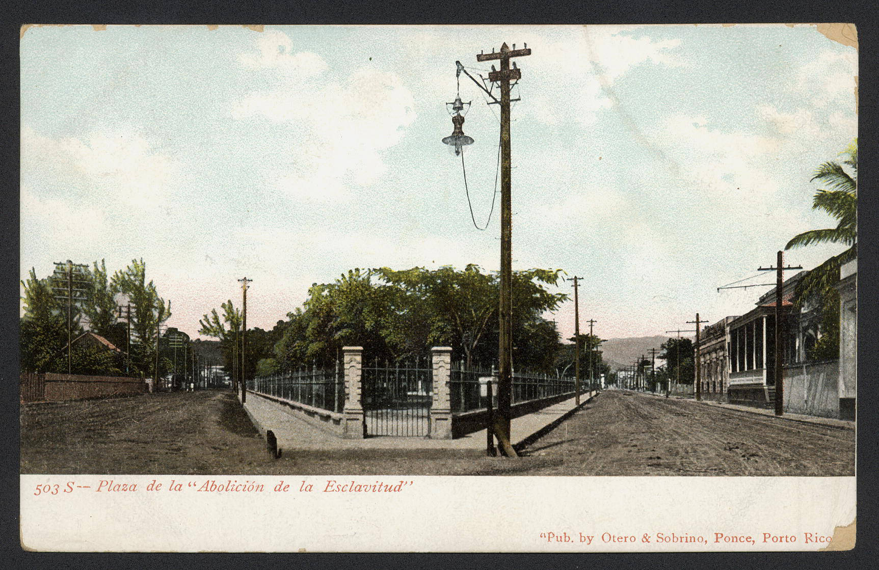 Image of the Park in honor to the abolition of slavery in Ponce, Puerto Rico, from a postal card. 1 tarjeta postal : col; 8.7x13.5 cm. de la Colección de Tarjetas Postales, disponible en la Colección Puertorriqueña del Sistema de Biblioteca de la Universidad de Puerto Rico, Recinto de Río Piedras